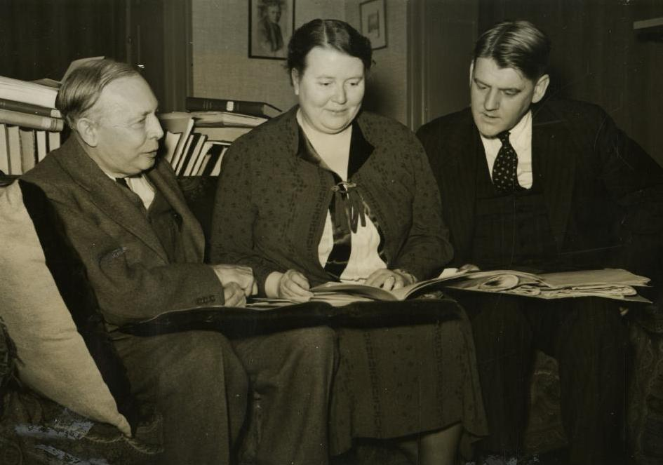 Kirsopp Lake (1872-1946), Silva Tipple New Lake (1898-1983), and Robert Pierce Casey (1897-1959), co-leaders of a 1938 Brown University-University of Pennsylvania joint expedition to excavate the site of the ancient city of Van in Asia Minor.